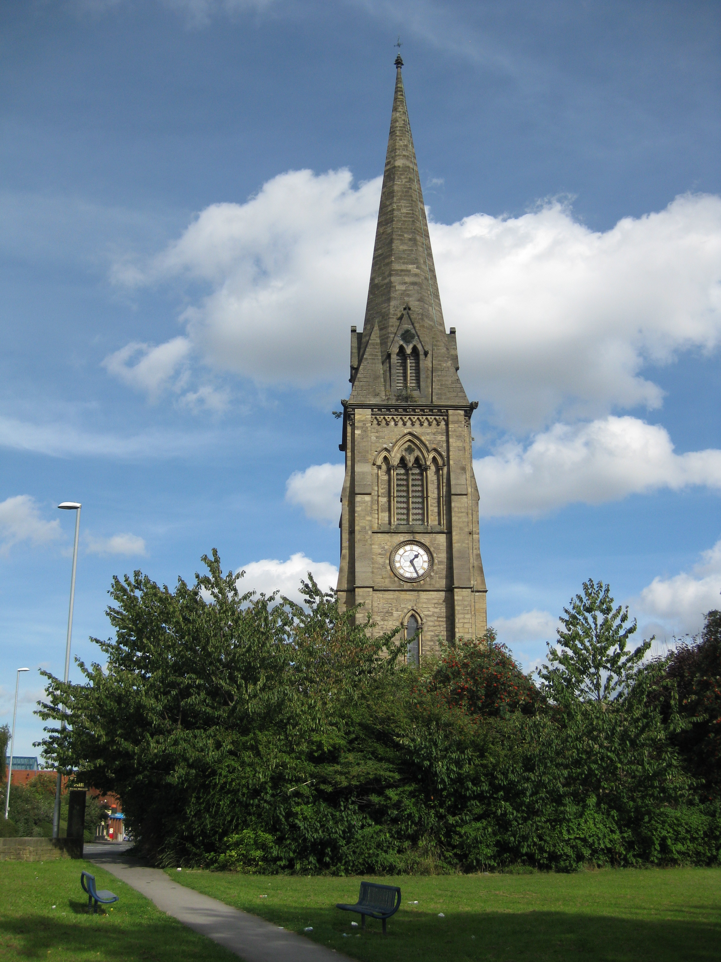 Church of St Mary the Virgin, Hunslet, Leeds. Viewed from the WSW, path between Church Street and Balm Road